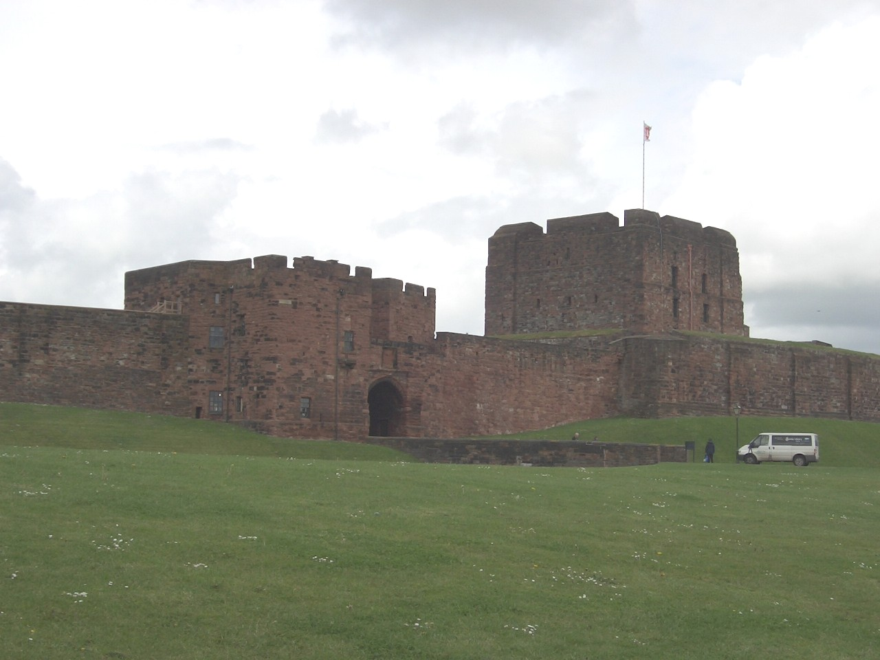 My photo of carlisle castle